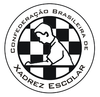 CBXE